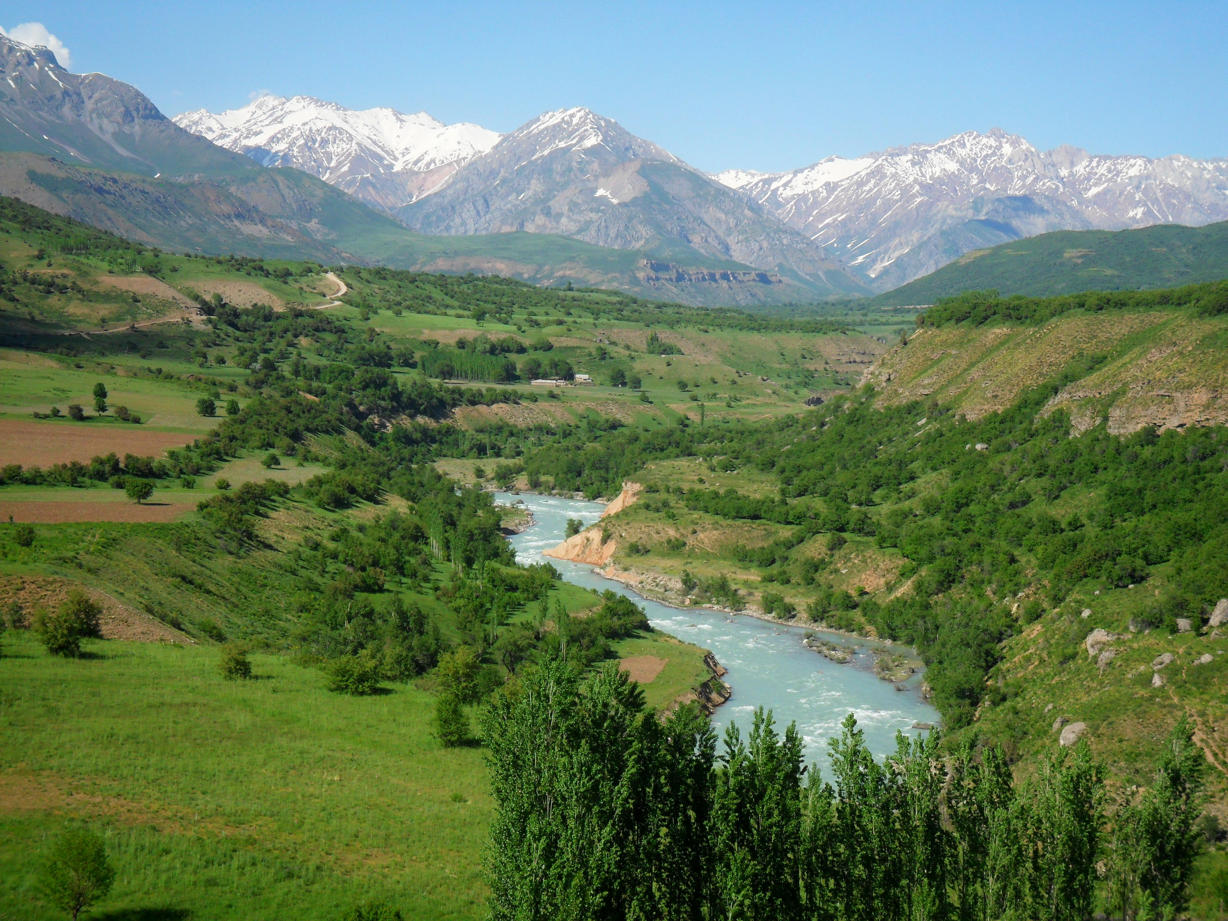 Pskem river valley, Tashkent area, Uzbekistan